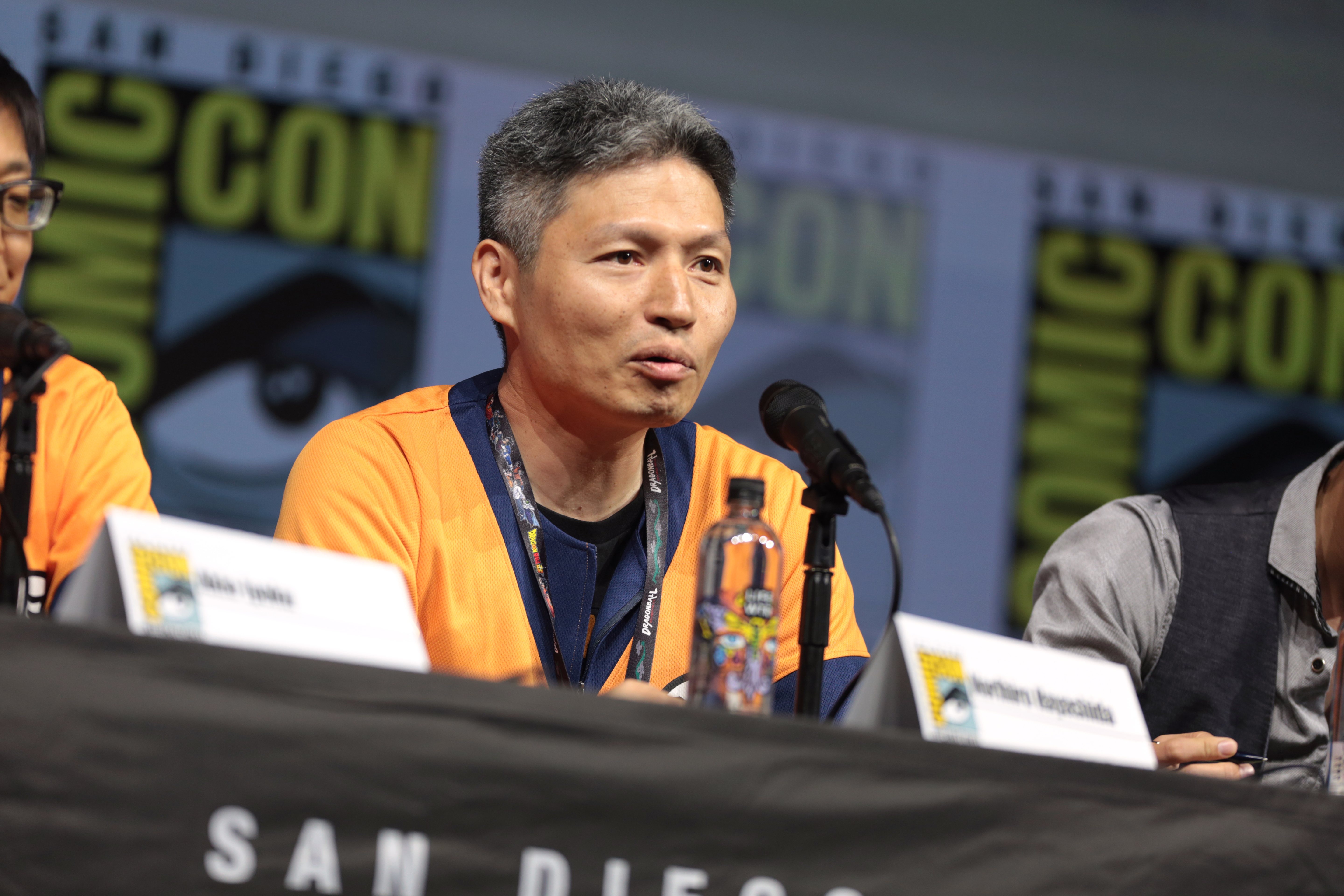 Norihiro Hayashida speaking at the 2018 San Diego Comic Con International, for "Dragon Ball Super", at the San Diego Convention Center in San Diego, California.